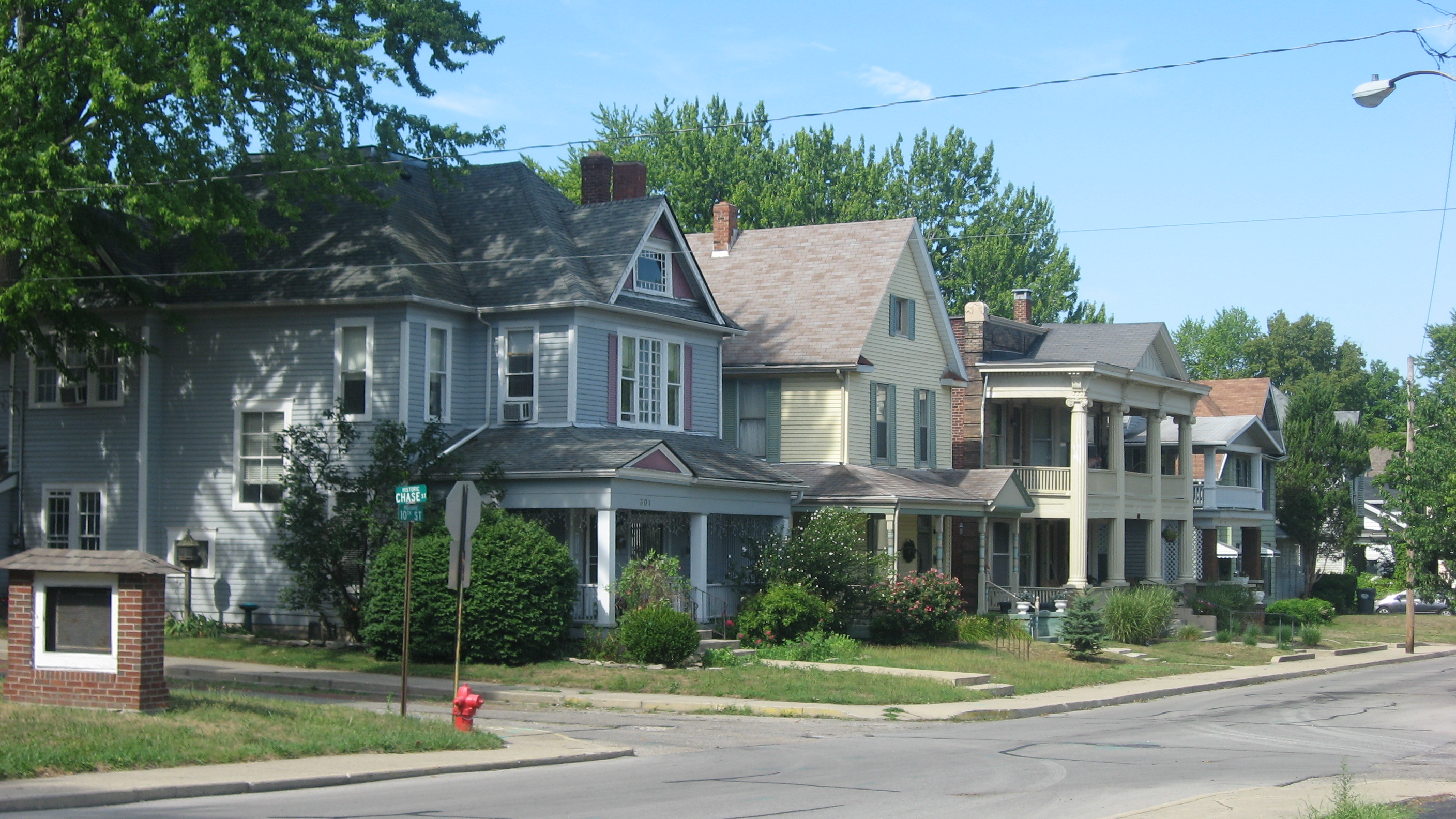 Houses on the southern side of the 300 block of W. Tenth Street in Anderson, Indiana, United States. From left to right: 301 W. Tenth: Queen Anne architecture, built 1900 305 W. Tenth: Vernacular architecture, built 1910 309 W. Tenth: Apartment building, Neoclassical architecture, built 1915 315-317 W. Tenth: Vernacular architecture, built 1905 This block is part of the West Central Historic District, a historic district that is listed on the National Register of Historic Places.